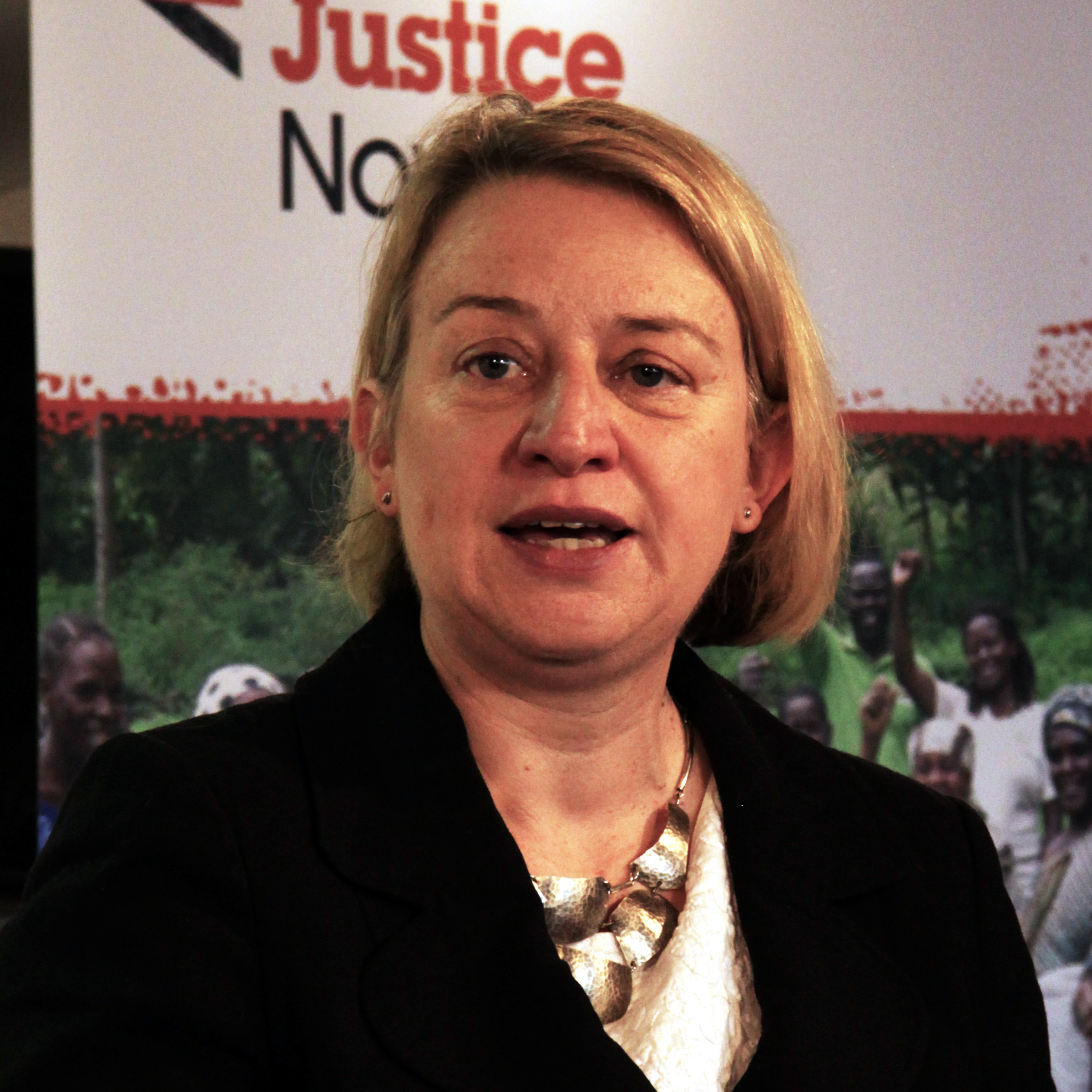 Natalie Bennett - Take Back Our World! - Global Justice Now